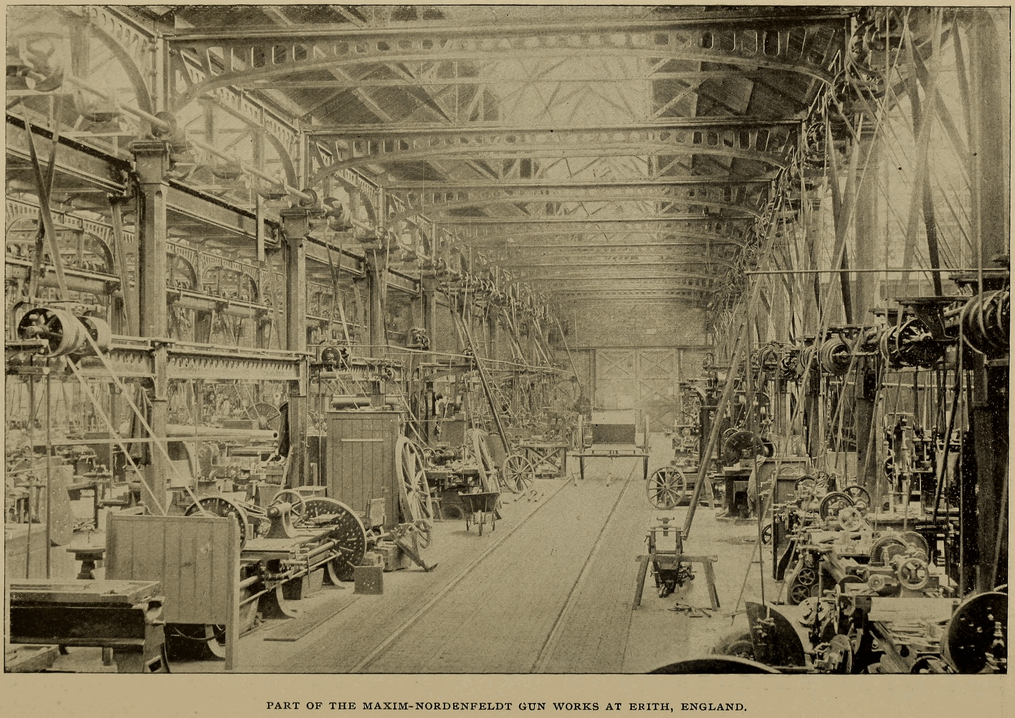 Cassier's Magazine of April 1895 had an article on page 435-456, written by J. Bucknall Smith and titled Some Features of the Inventive Career of Hiram S. Maxim. It was accompanied by a number of illustrations, including this photo of the Maxim-Nordenfelt Gun Works at Erith, on page 448.